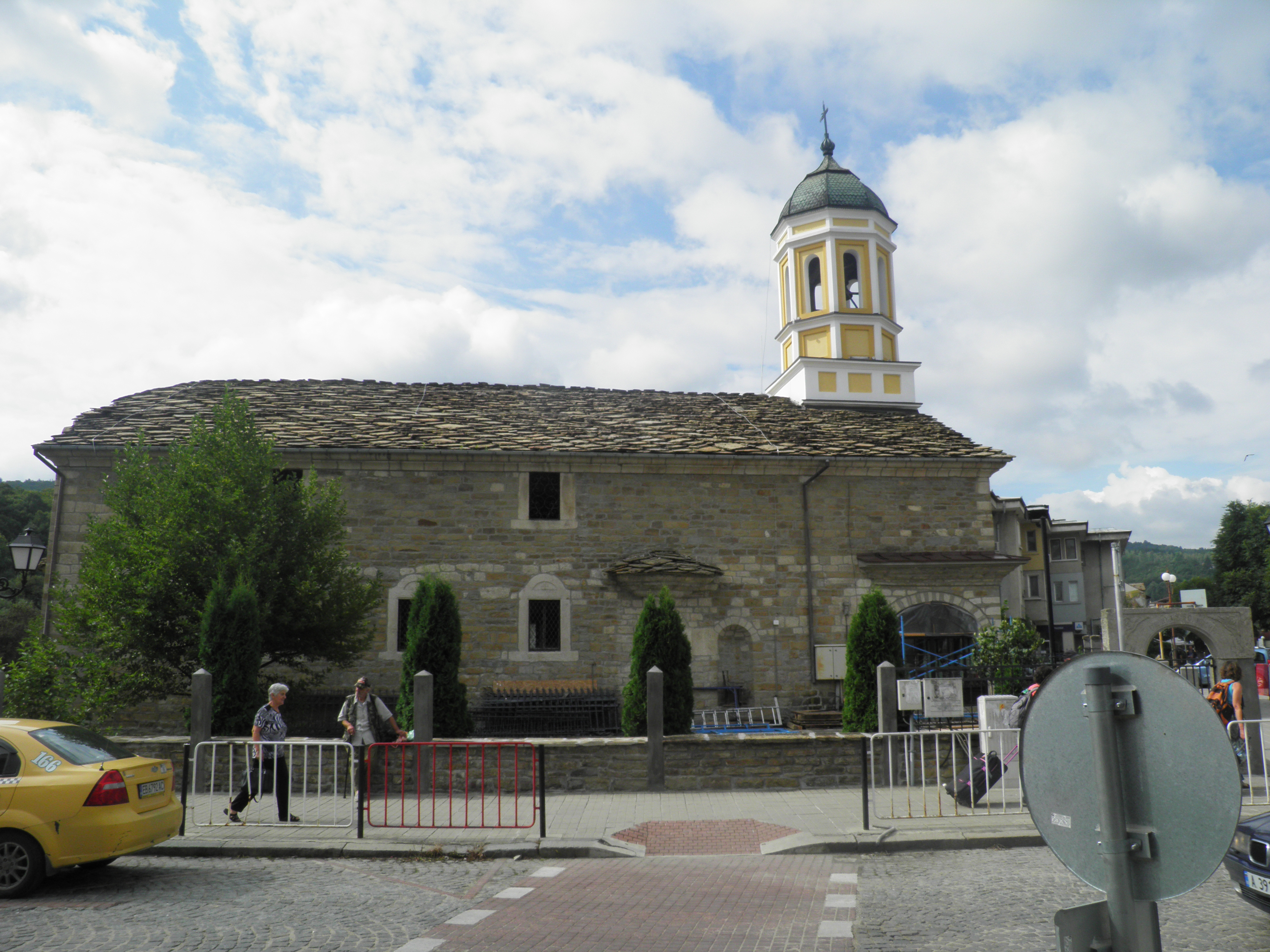 Church "Saint Georgi" Tryavna